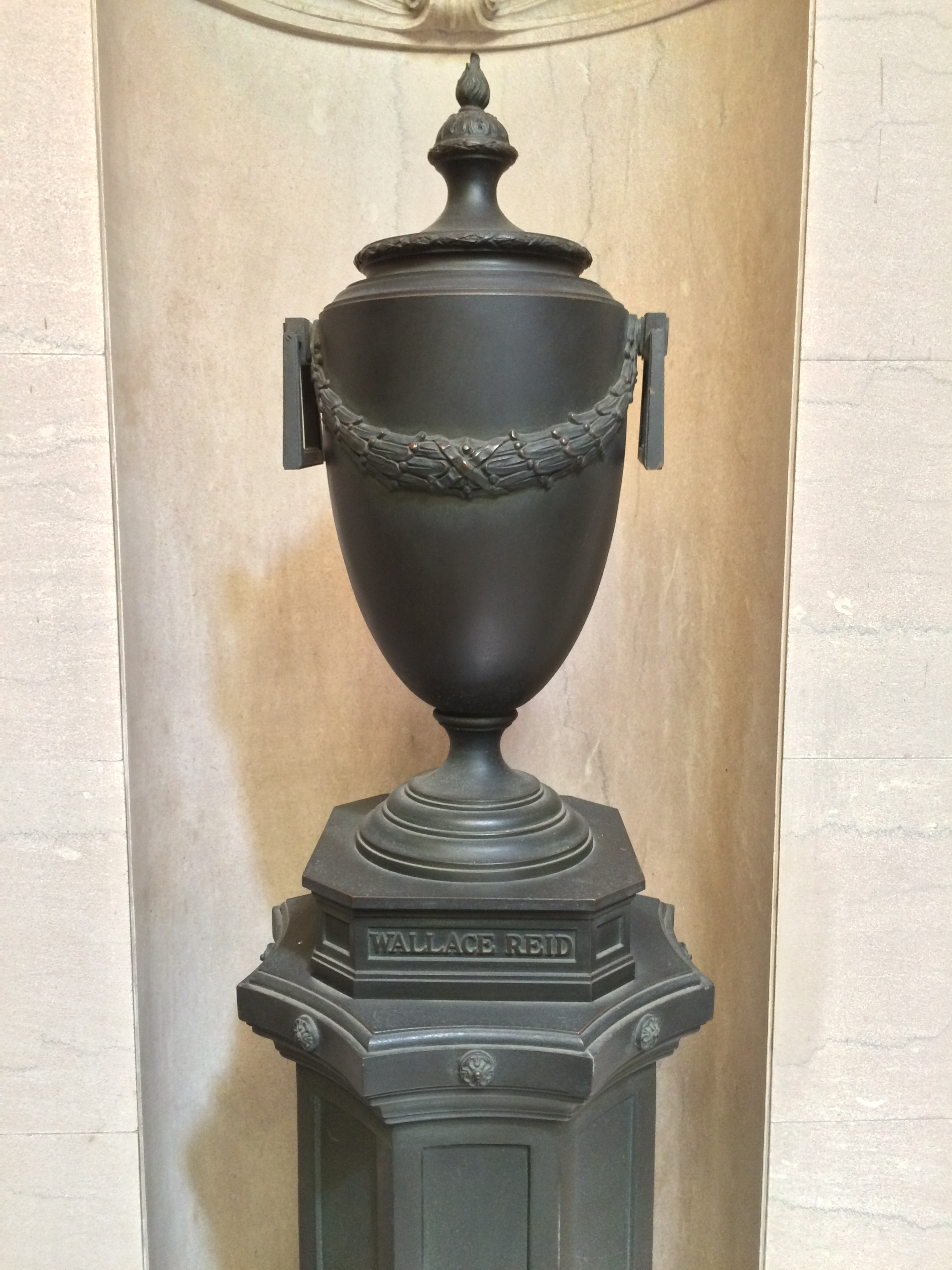 The urn of Wallace Reid, located in the Azalea Terrace of the Great Mausoleum, Forest Lawn Glendale.